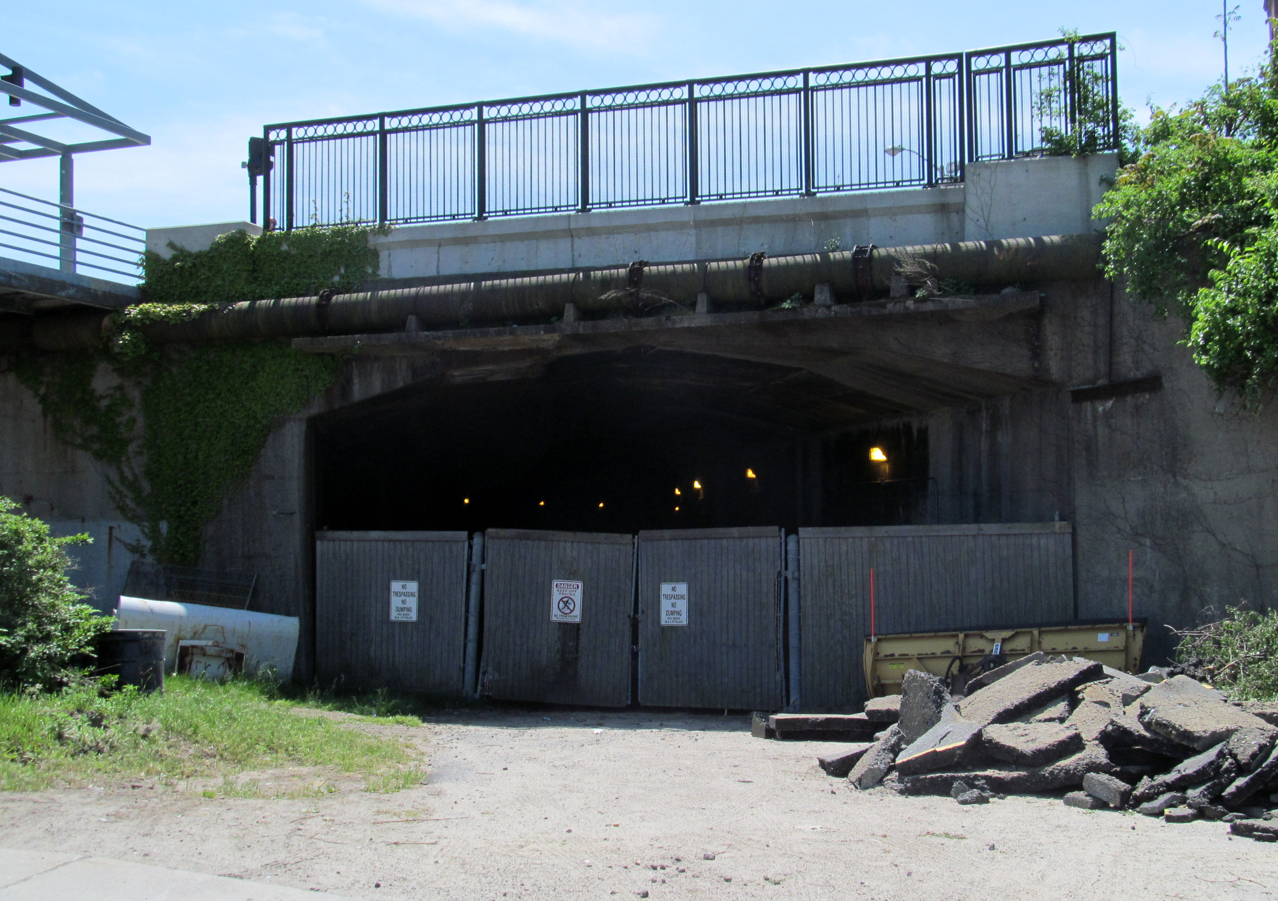 The unused northwest portal of the Salem Tunnel in May 2012